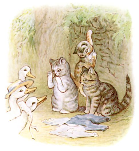 Illustration of the kittens with the puddle-ducks, from The Tale of Tom Kitten